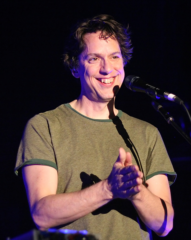 John Linnell of They Might Be Giants